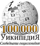 Bg_Vikipedia_100000_logo_v2